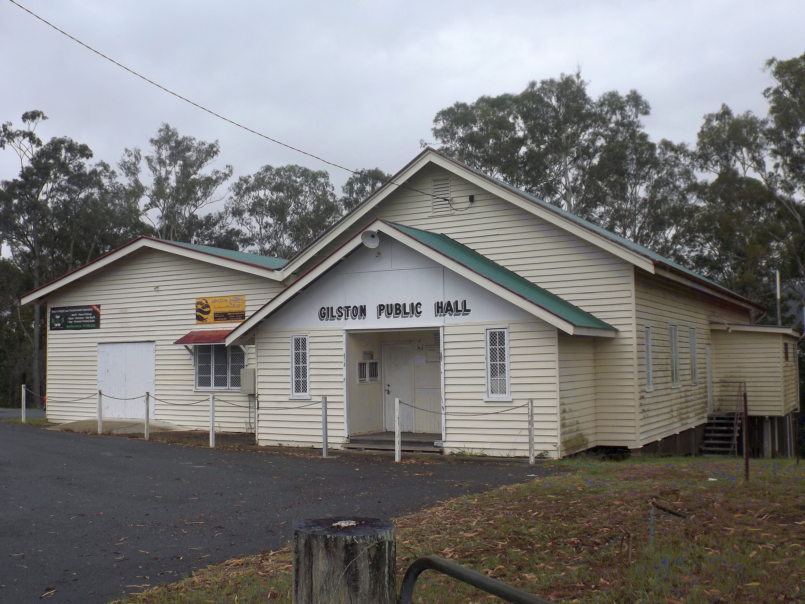 Photo of Gilston Public Hall at Gilston, Gold Coast City, Queensland, Australia.